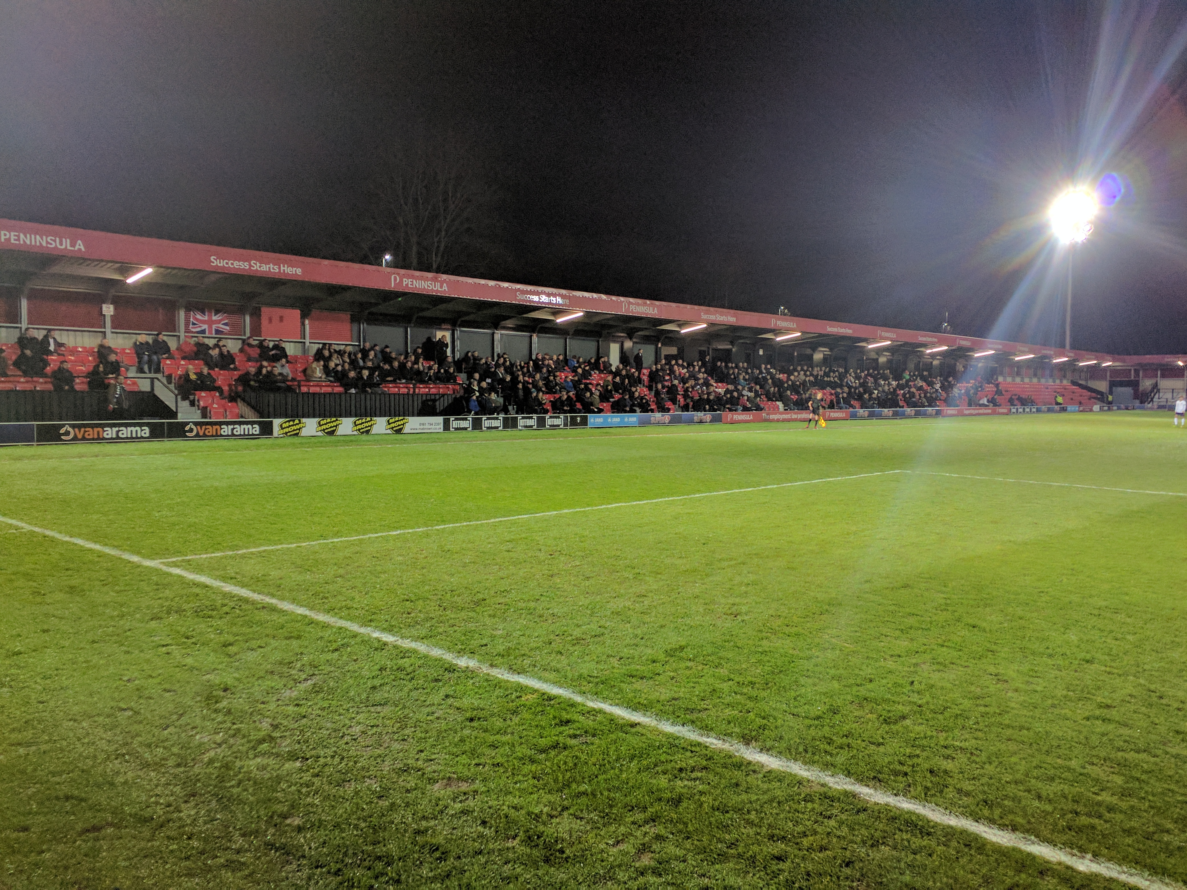 Moor Lane for England C 2-2 Wales C